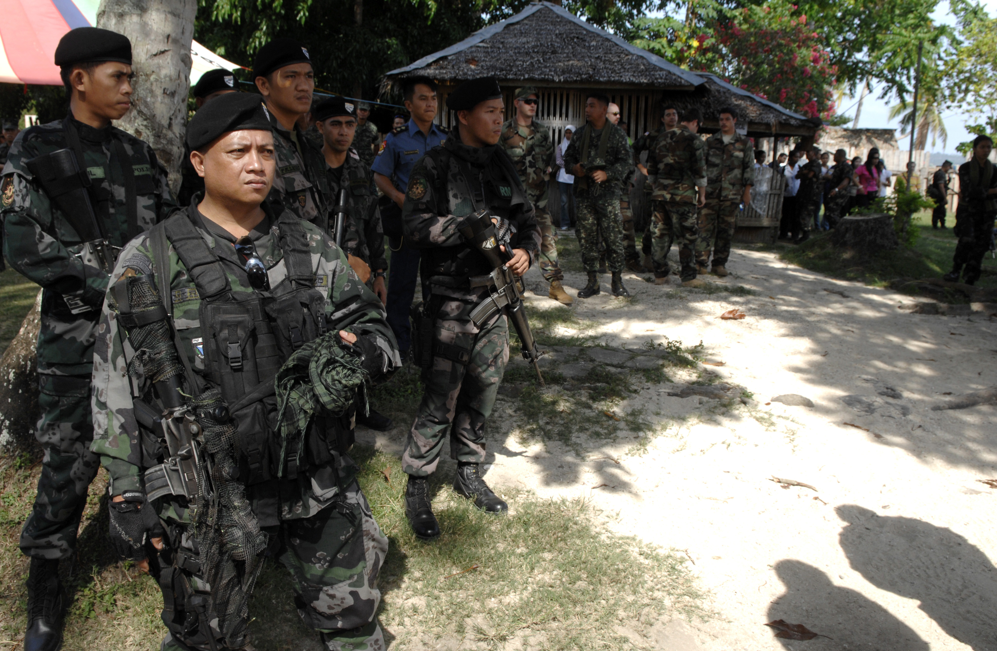 Philippine national police provide security during a medical outreach event Feb. 25, 2010, in Lamitan, Philippines. U.S. Army Sgt. 1st Class Michael J. Carden